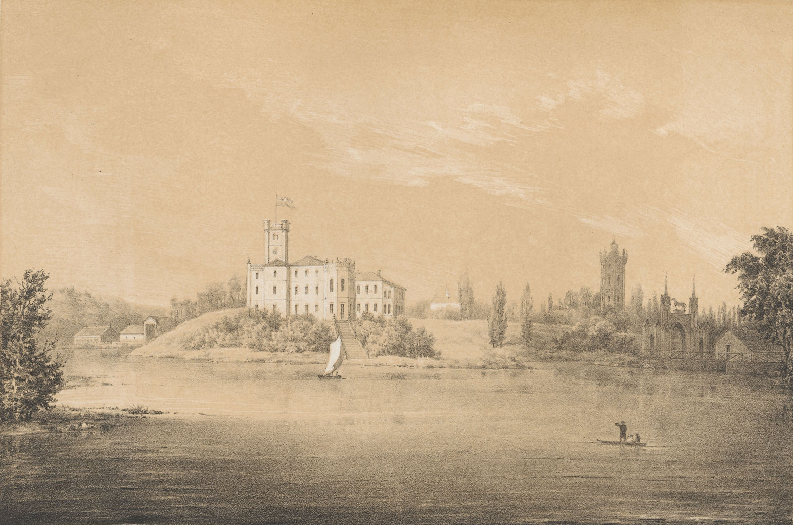 Landwarów (modern Lentvaris) in Vilna Governorate, the Gothic revival palace of Count Józef Tyszkiewicz. A toned lithograph, based on a sketch by Napoleon Orda, etched by Alojzy Misierowicz of the Maksymilian Fajans Workshop.